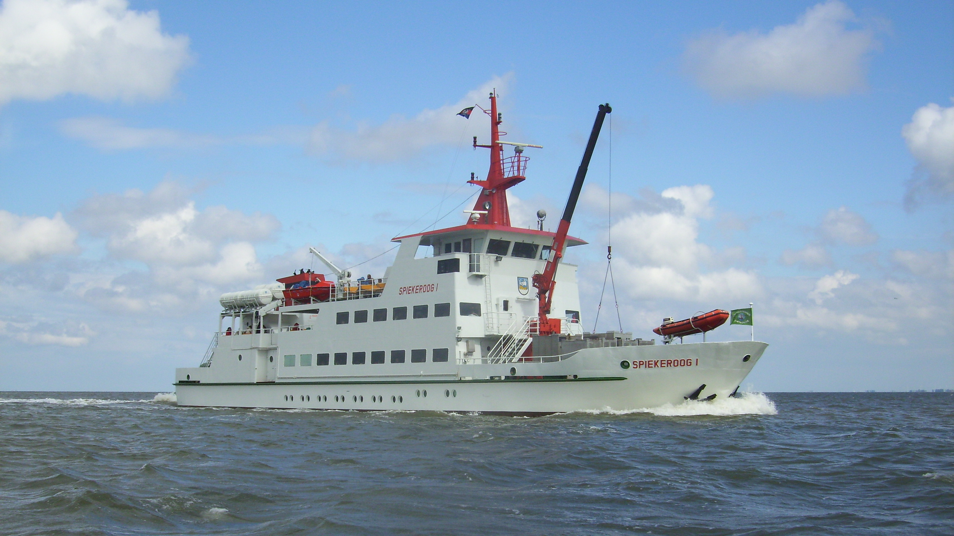 Spiekeroog I